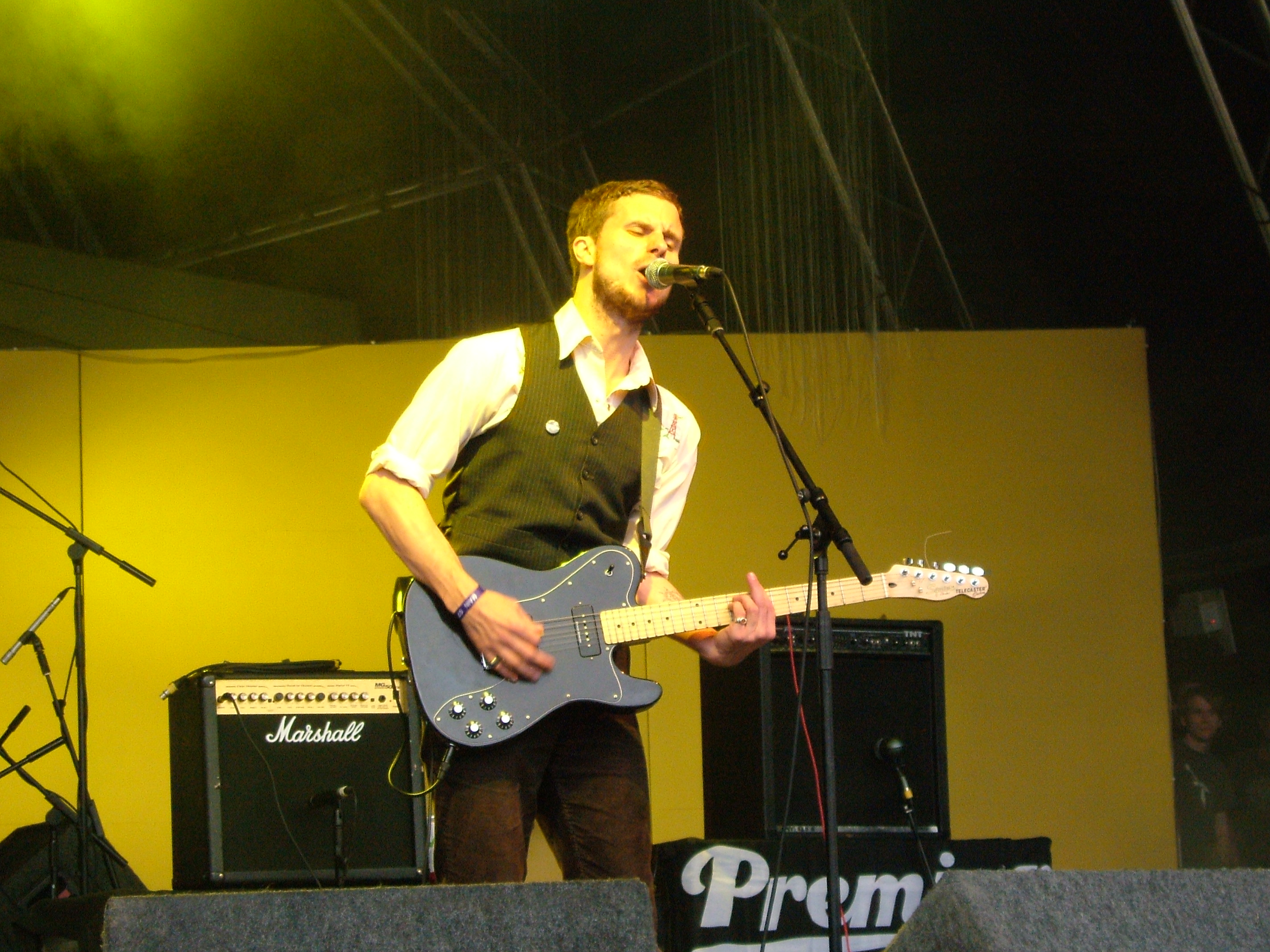 Pacific Ocean Fire playing at the Summer Sundae festival, August 2007